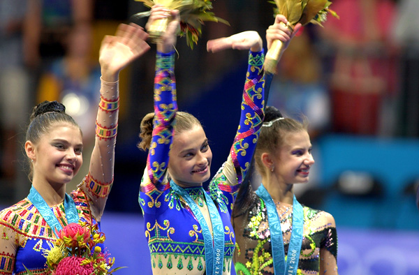 (L-R) Photograph of rhythmic gymnasts Alina Kabaeva (bronze), Yulia Barsukova of Russia (gold), Yulia Raskina of Belarus (silver) as they celebrate winning All-Around medals at Olympic Games on September 29, 2000 at Sydney, Australia. Photo by Tom Theobald and released into the public domain.